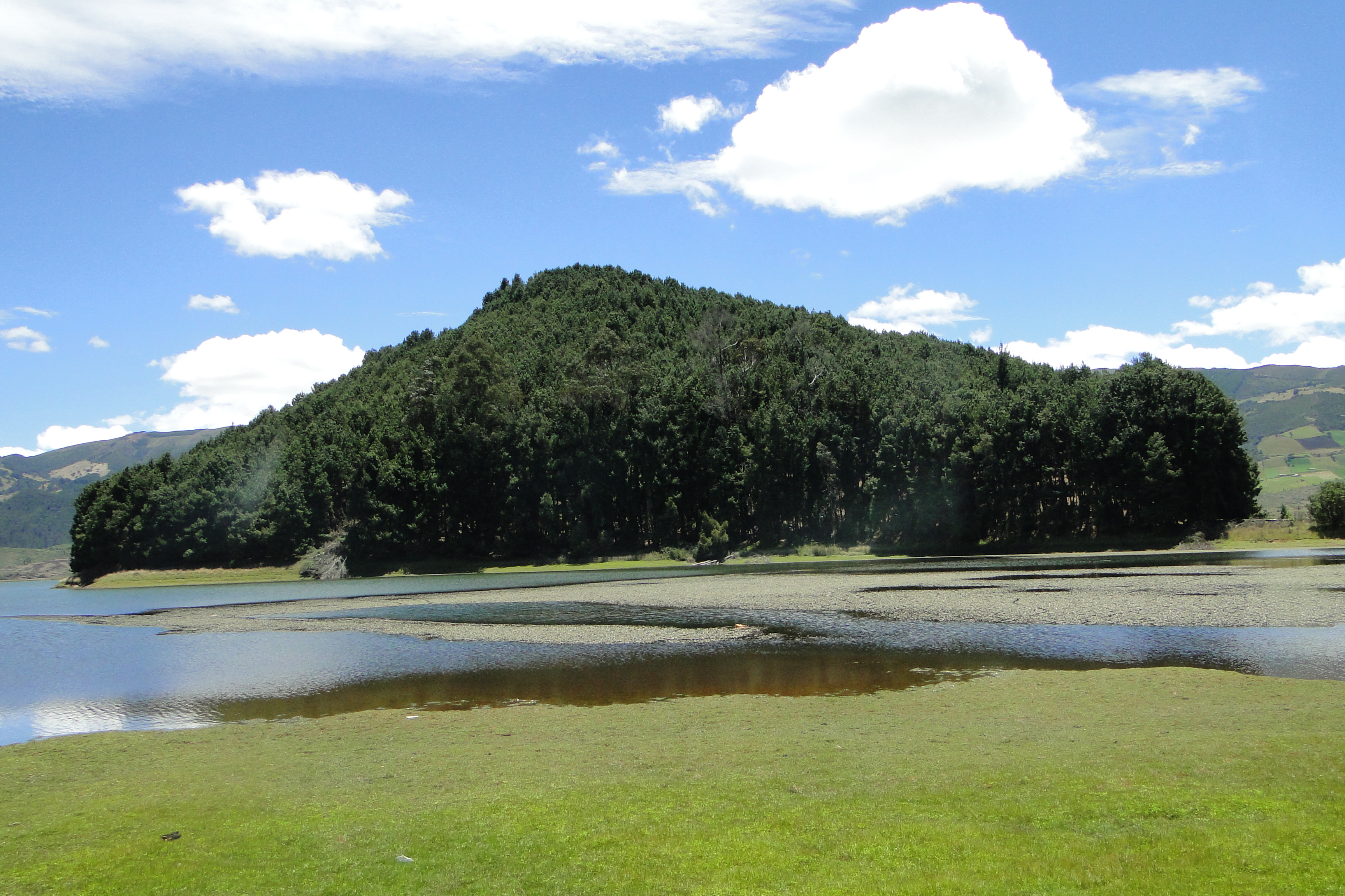 embalse del nausa